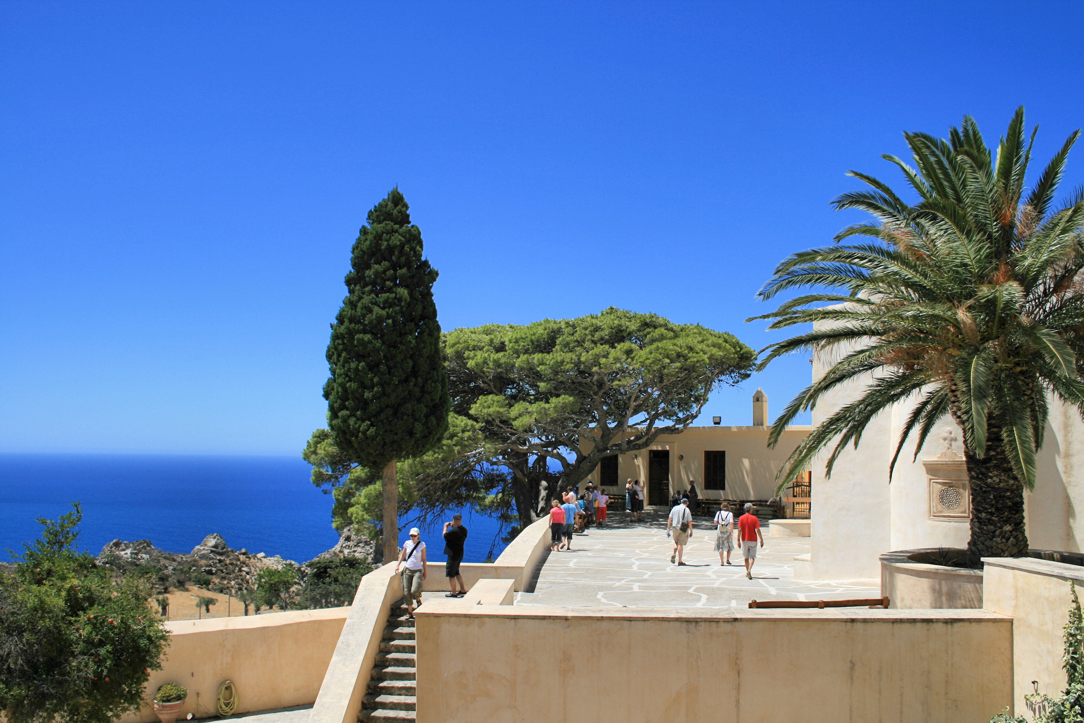 Preveli Monastery on the island of Crete